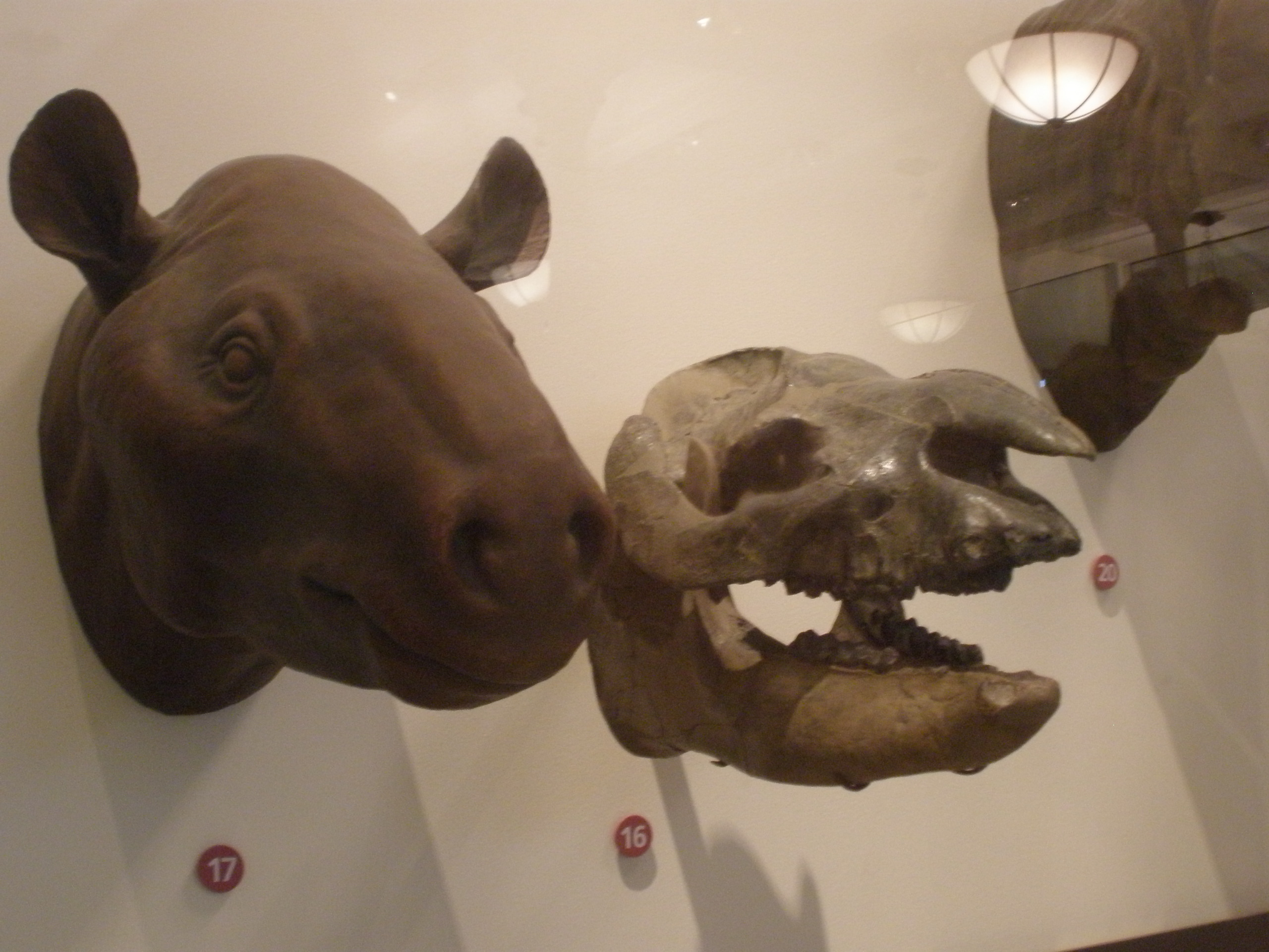 Fossil of Palaeosyops leidyi, a fossil perissodactyl